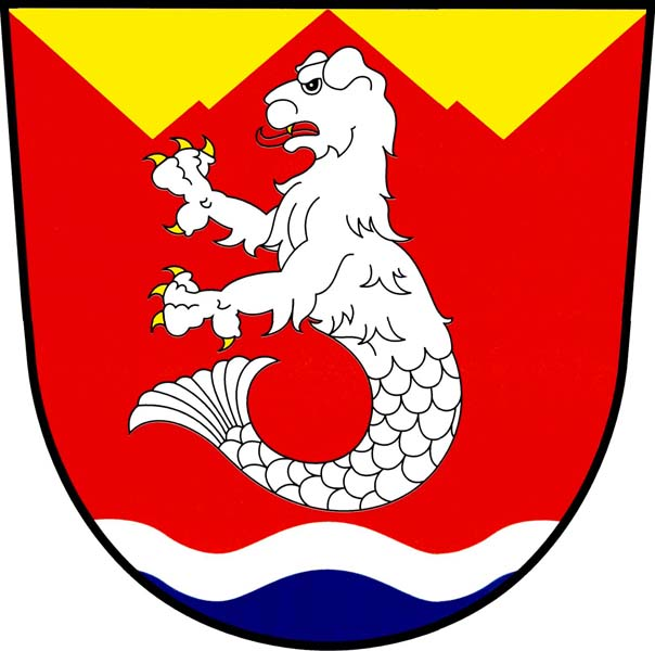 Coat of arms with "sea-lion"